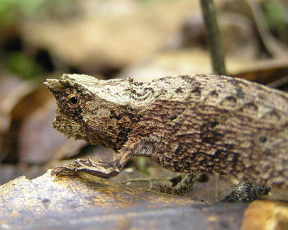 Madagascar Ground chameleon Brookesia sp.?